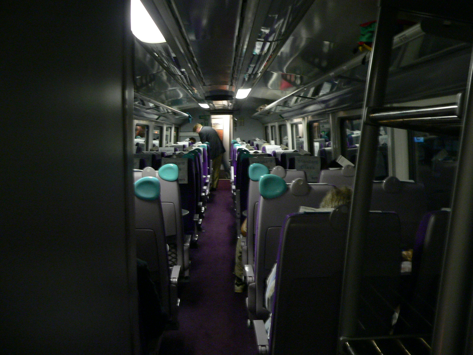 The interior of a First Great Western Class 180 Adelante Class 180 diesel multiple unit. Photographed at London Paddington on 24 October 2005. I presume the low light levels are because it was an evening service.